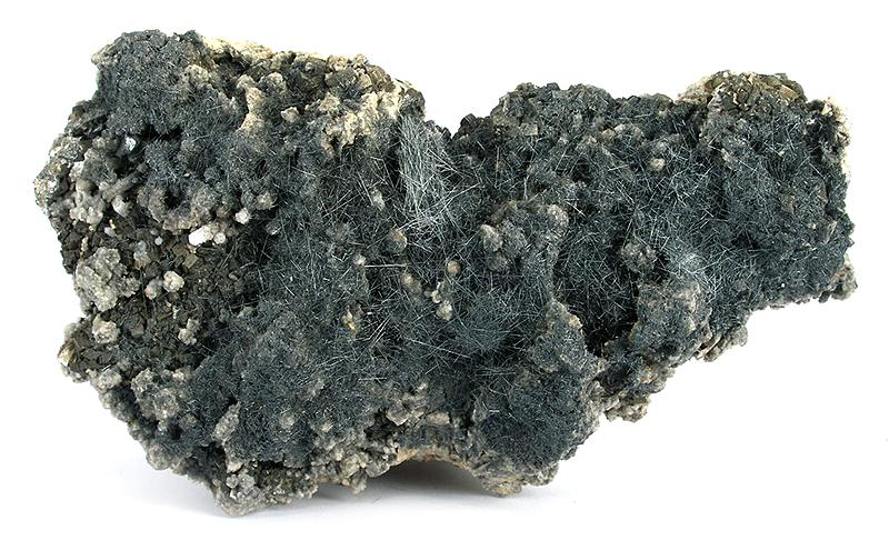 Boulangerite Locality: Noche Buena Mine, Noche Buena, Municipio de Mazapil, Zacatecas, Mexico (Locality at ) Size: cabinet, 12.5 x 6.5 x 6.2 cm Boulangerite This limestone matrix is covered by a matted, felted mass of acicular, lustrous, gray, boulangerite: a lead, antimony, sulfosalt, in crystals, to 1.75 cm across. Cubes of mirror-bright pyrite, to .5 cm across, also dot the matrix. This is an excellent example of the acicular crystal habit of boulangerite, well known historically from Zacatecas.